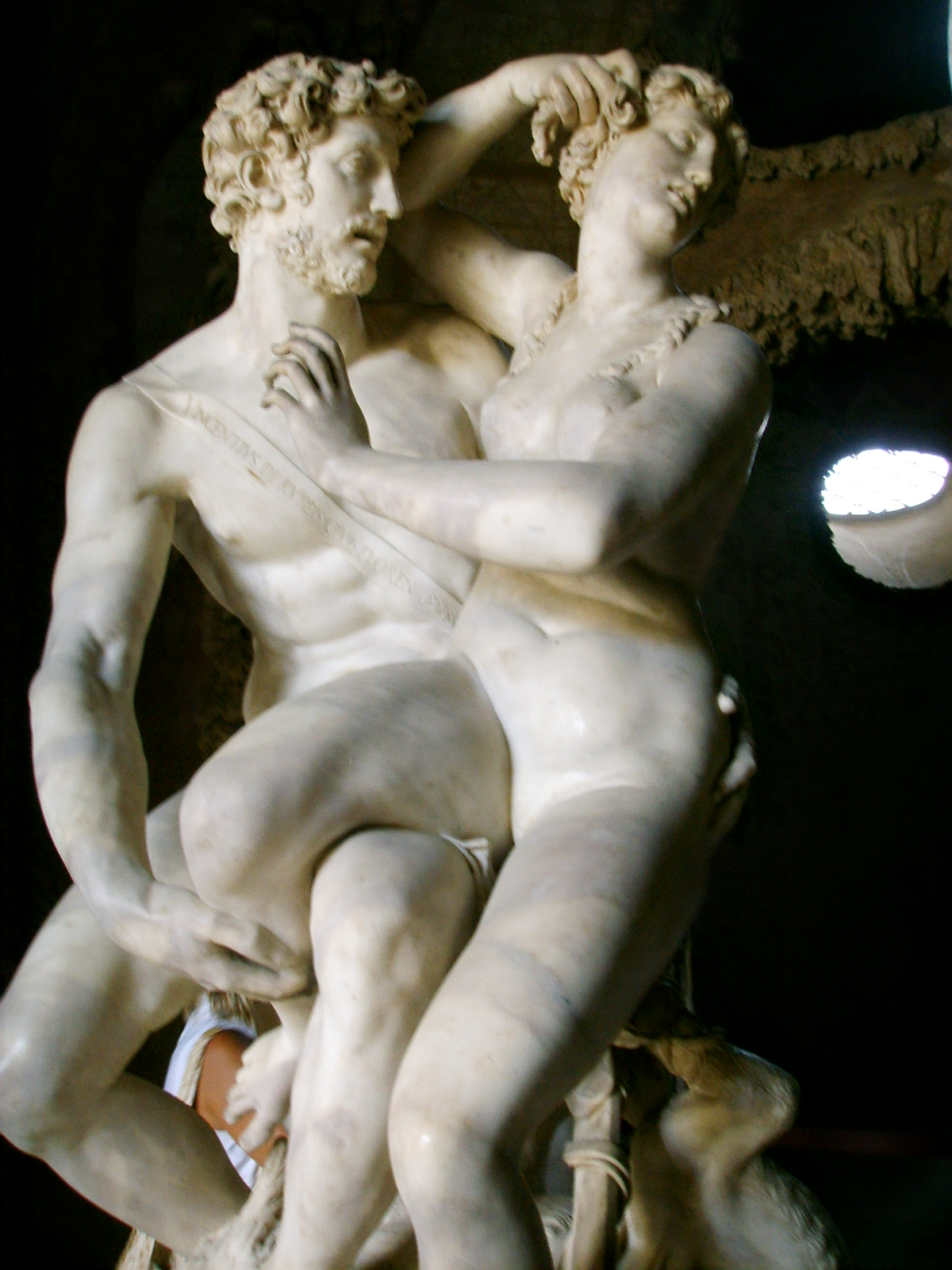 Paris abducts Helen, by Vincenzo de' Rossi